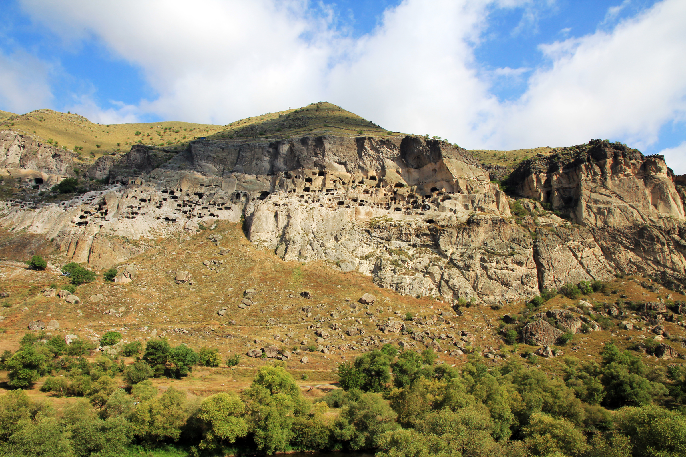 Global view on the cave monastery Vardzia in the south of Georgia